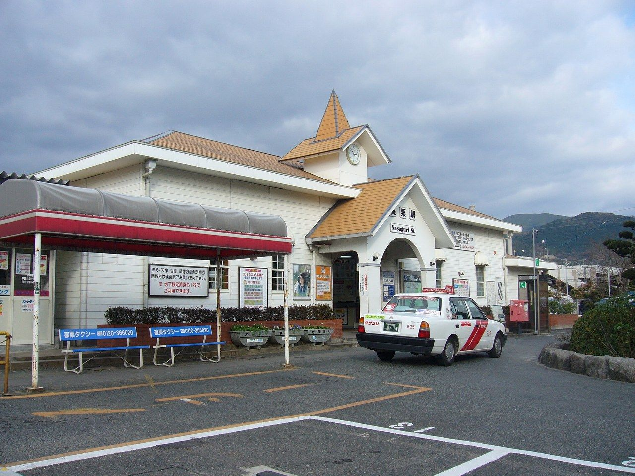 Sasaguri Station, Sasaguri Town, Fukuoka, Japan